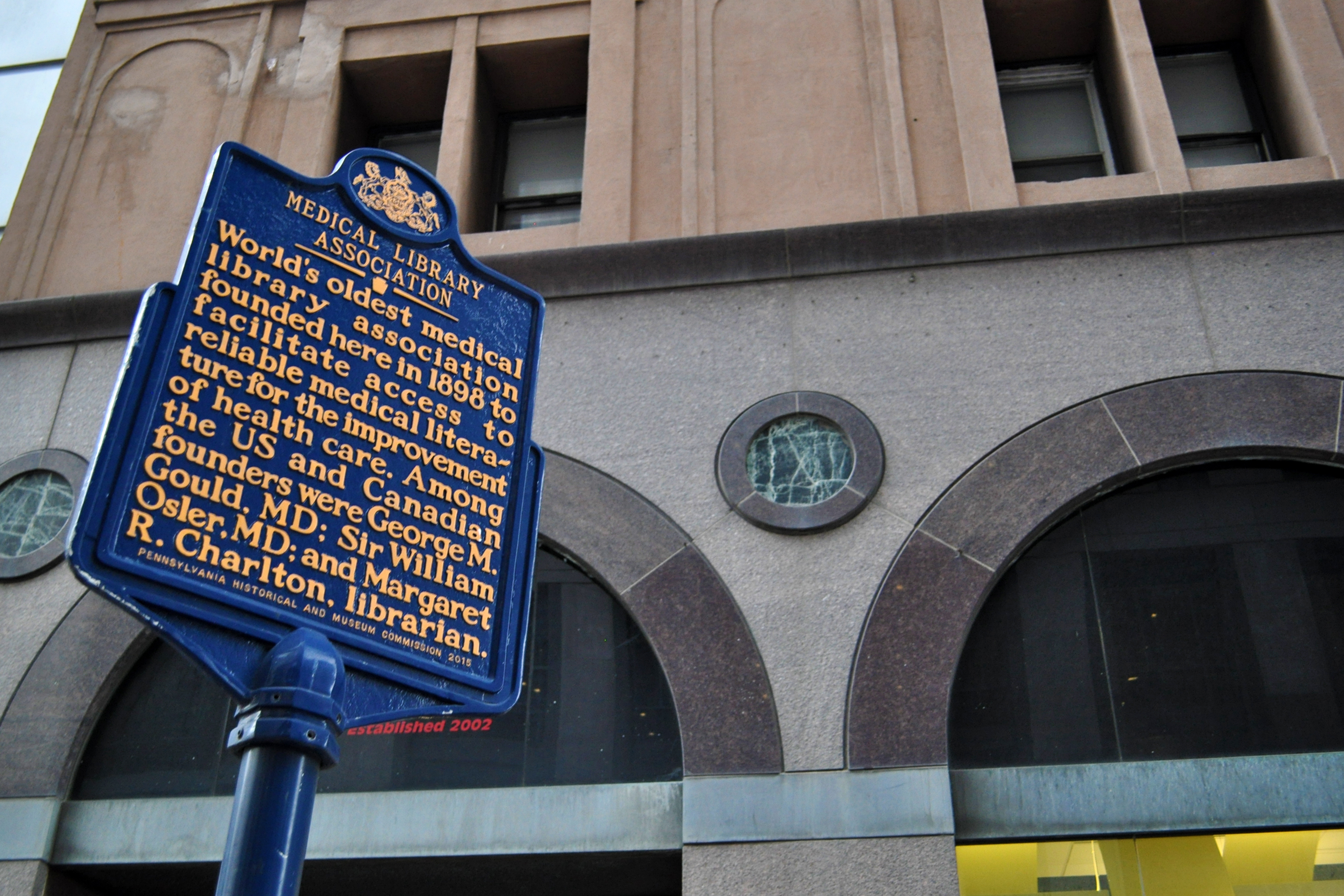 Medical Library Association. World's oldest medical library association founded here in 1898 to facilitate access to reliable medical literature for the improvement of health care. Among the US and Canadian founders were George M. Gould, MD; Sir William Osler, MD; and Margaret R. Charlton, librarian. (Historical Marker at 1420 Chestnut St Philadelphia PA - PA Historical & Museum Commission 2015)